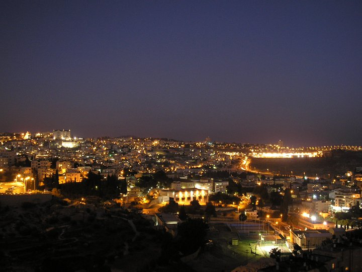 City of Nazareth